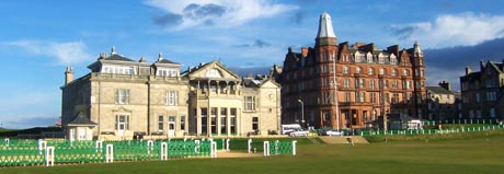 Category: University of St Andrews